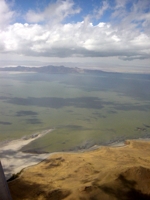 Great Salt Lake Photo taken by Bobak Ha'Eri. Sept. 19, 2004. Please observe license and properly cite in use outside Wikipedia.